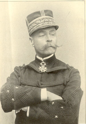 Photograph of Émile Auguste François Zurlinden, 1898.